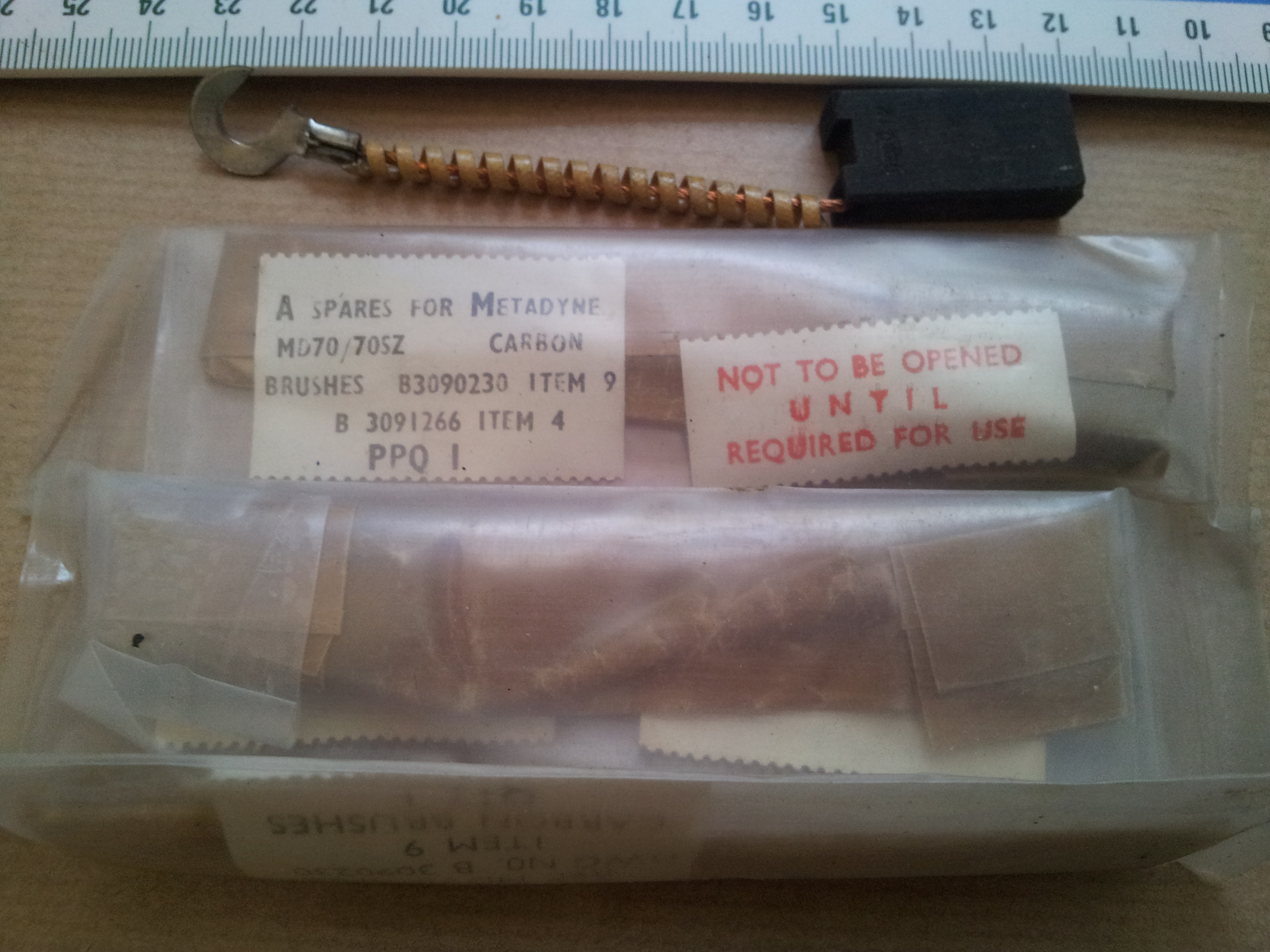 Four spare carbon brushes for a Metadyne machine, three of which still in their original packaging. A ruler with millimeter scale indicates the size.